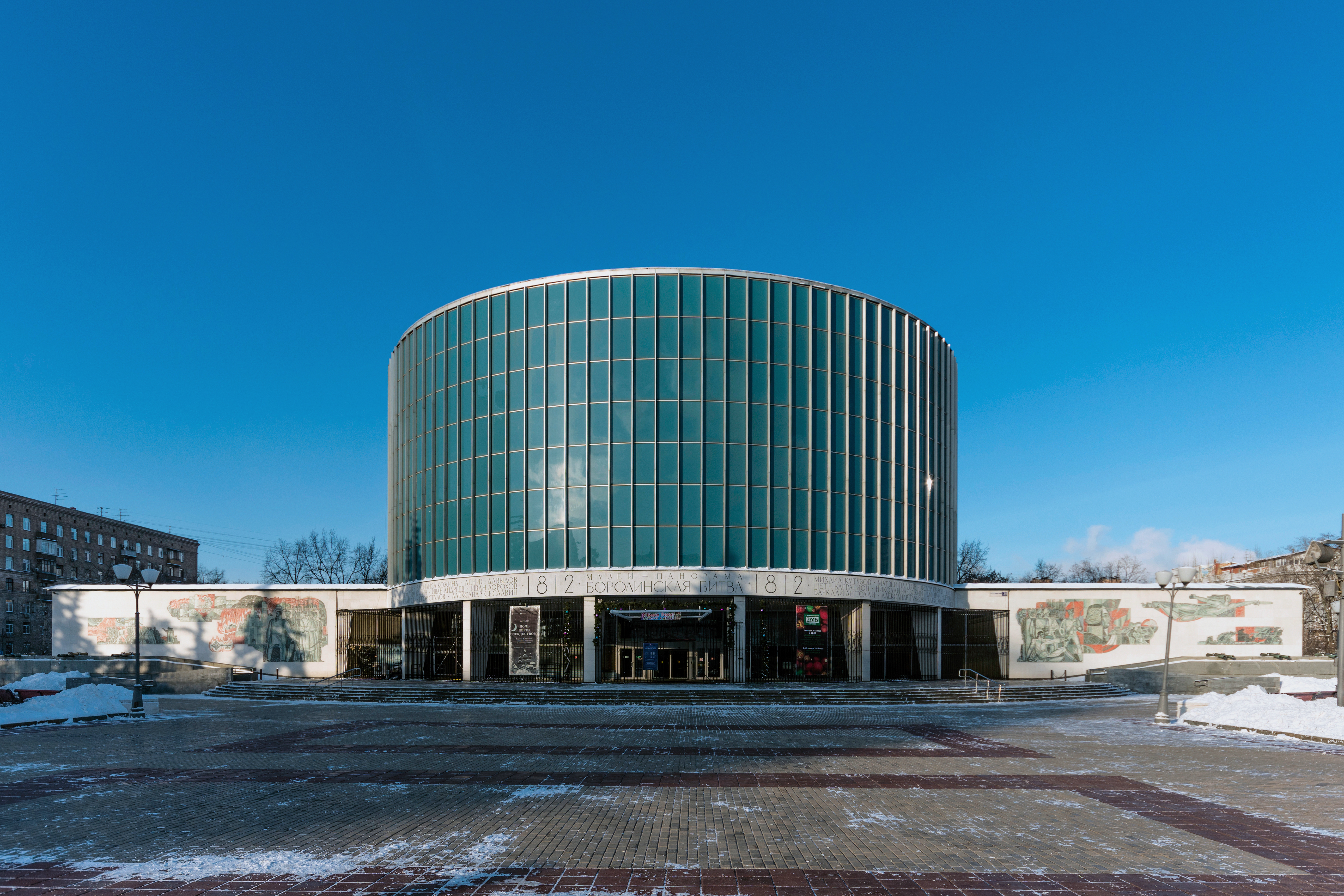 Panorama-Museum of the Battle of Borodino in Moscow